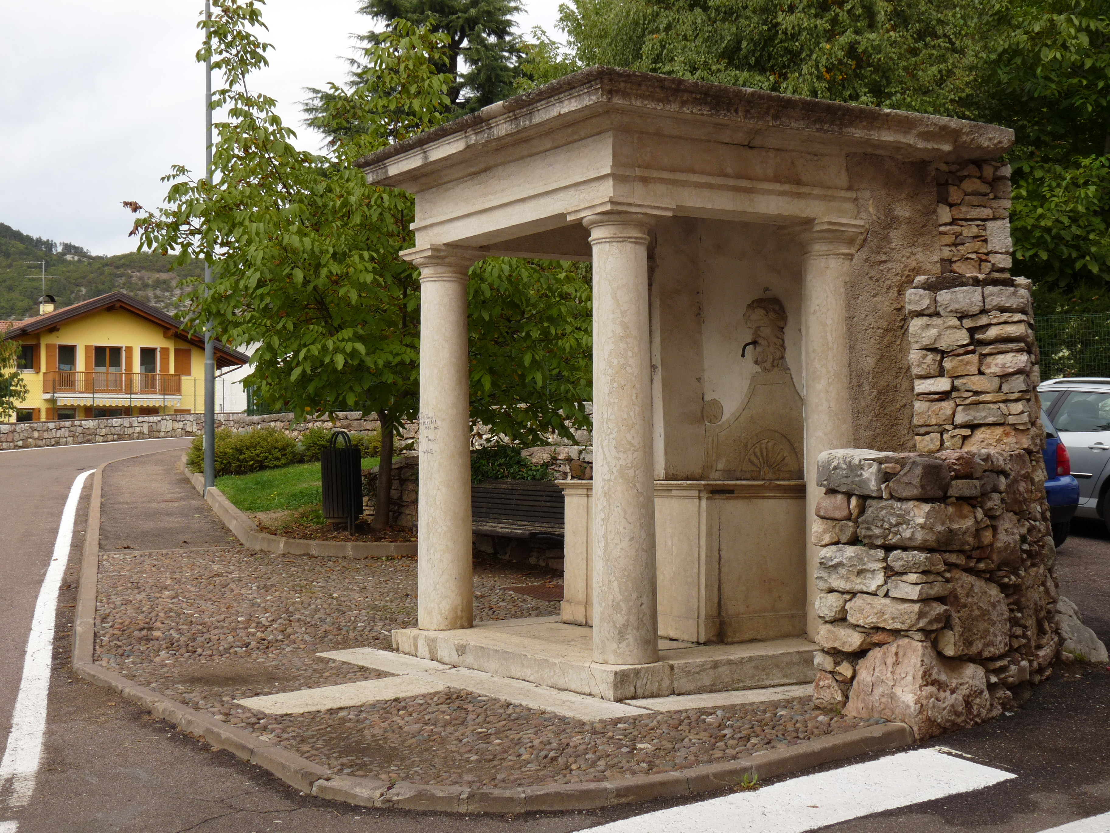 Trento (Italy): fountain (XVIII century) in Oltrecastello (three quartes view)